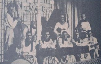 Orquesta argentina de Rafael Canaro